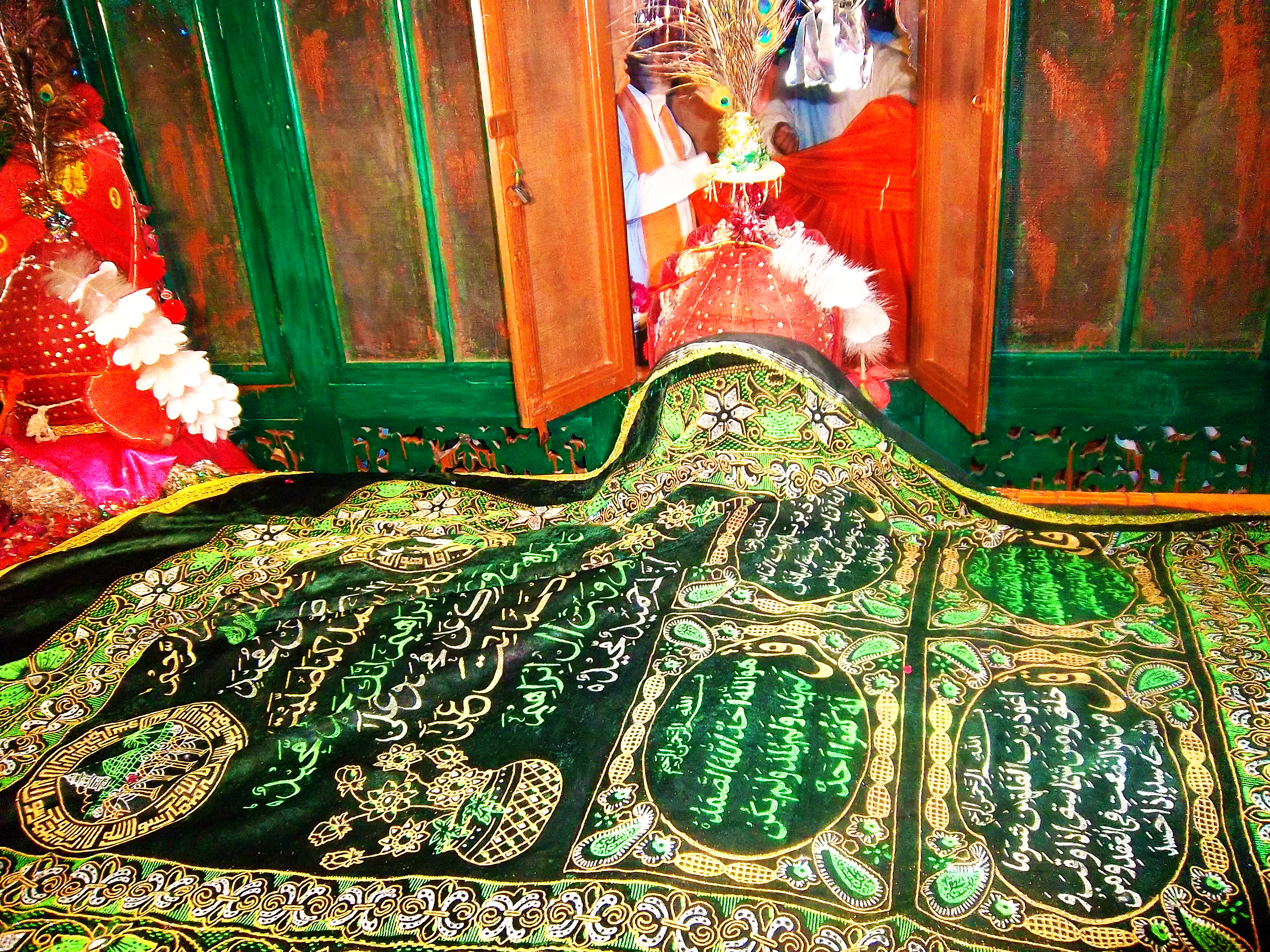 Holy Shrine of Hazrat Qadir Bux Bedil